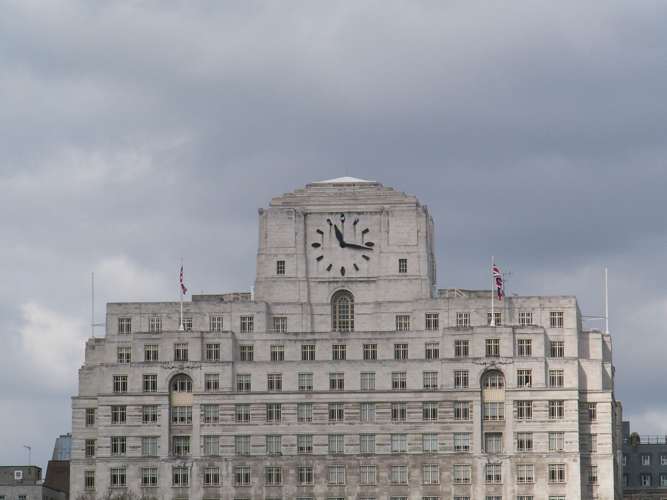 Shell-Mex House, London. Shell-Mex House, at 80 The Strand, London, was built for Shell-Mex and BP in 1935. During the war it was the HQ of the Petroleum board. When Shell-Mex and BP separated in 1975 the building became the HQ of Shell UK Ltd the UK company of the Royal Dutch Shell Group. The building was sold by Shell in the mid 1990s and Shell now only leases a small trading floor in the building.